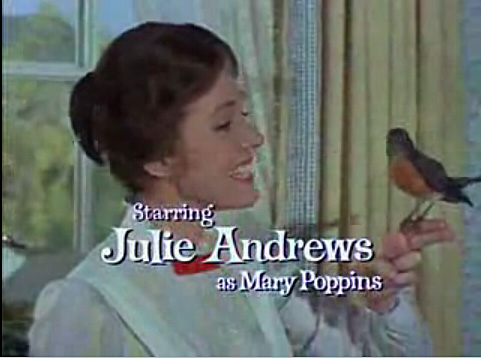 Screenshot of Julie Andrews from the trailer for the film Mary Poppins (film)